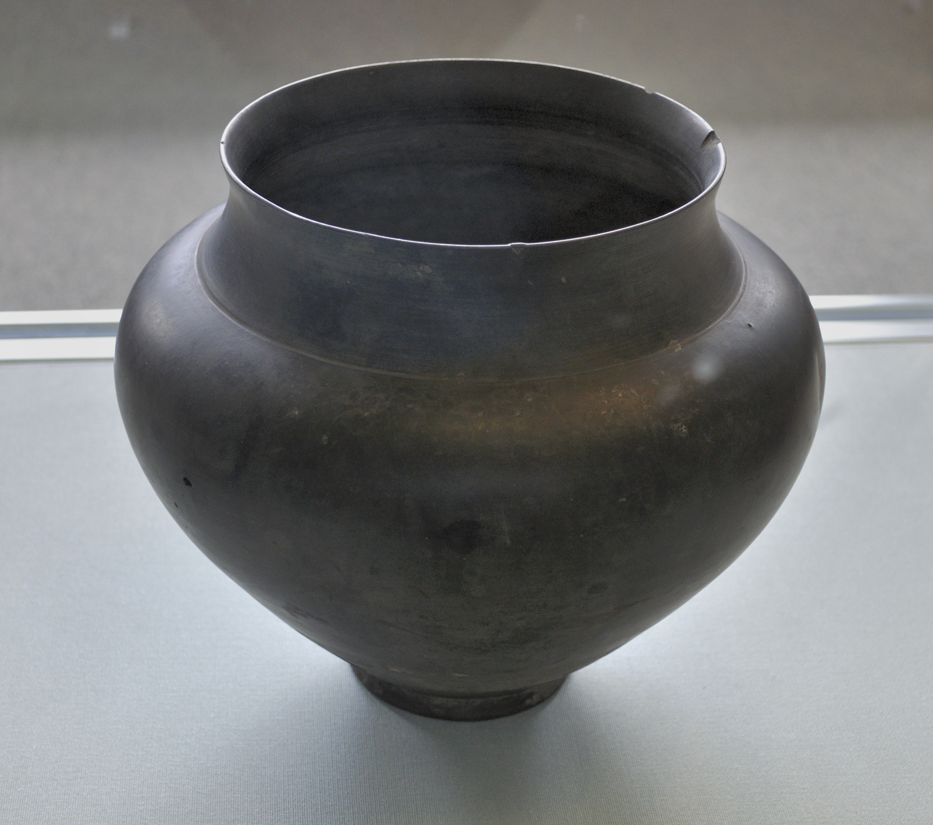 Picture taken in Hetjens-Museum Düsseldorf before Duisburg summer meetup 2010.